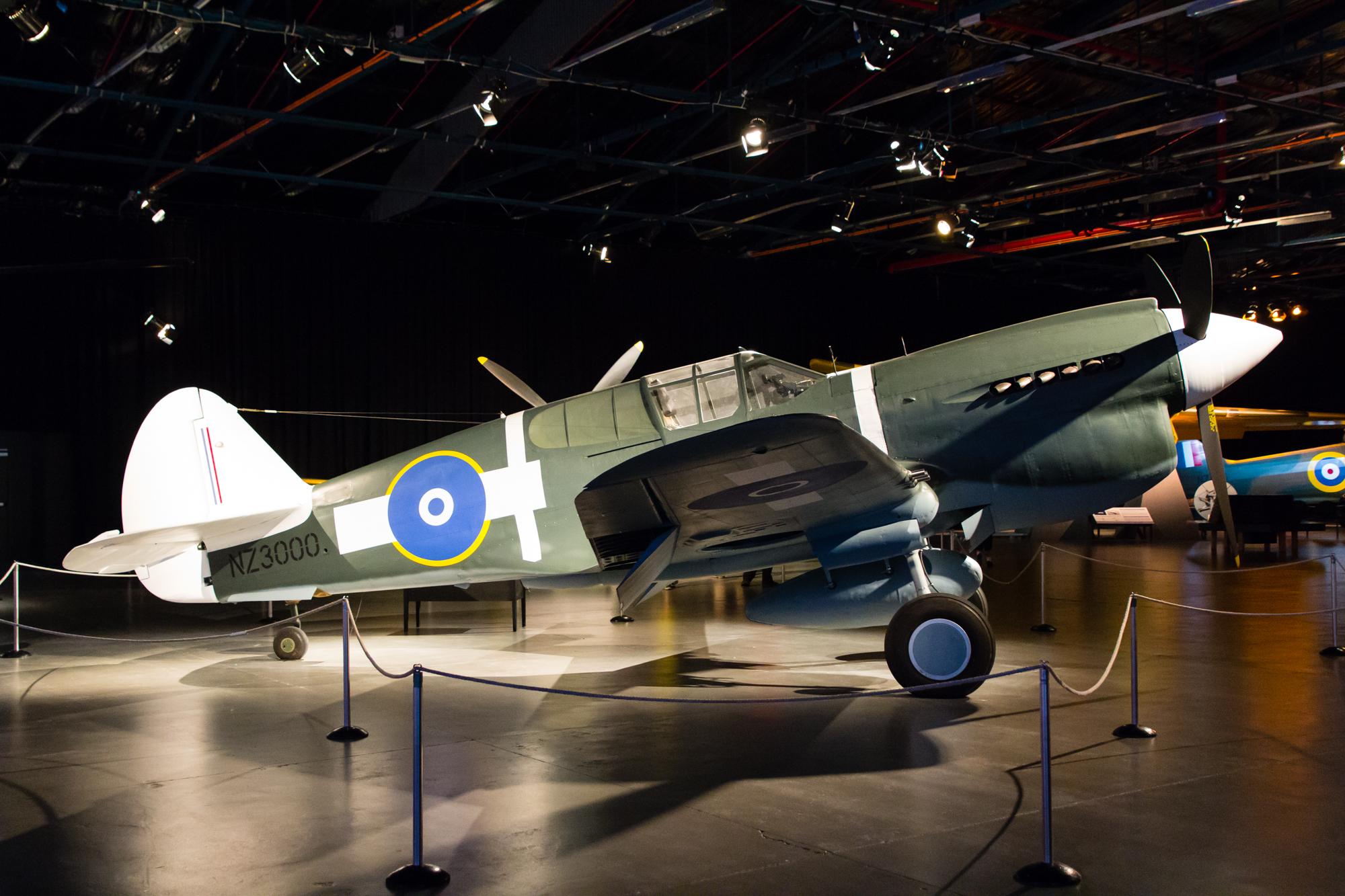 RNZAF P-40F 41-14205 at the Air Force Museum of New Zealand in Christchurch